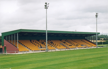 Pictured here in 1997, the £500,000 north stand contributed significantly to Orrell's financial woes